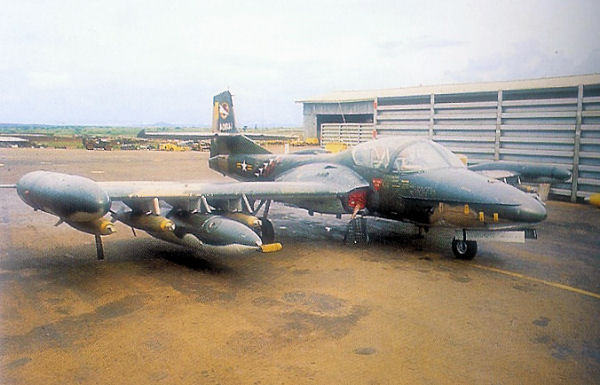 A Cessna A-37B Dragonfly of the 5548th Fighter Squadron of the South Vietnamese Air Force (VNAF), at Phan Rang Air Base.